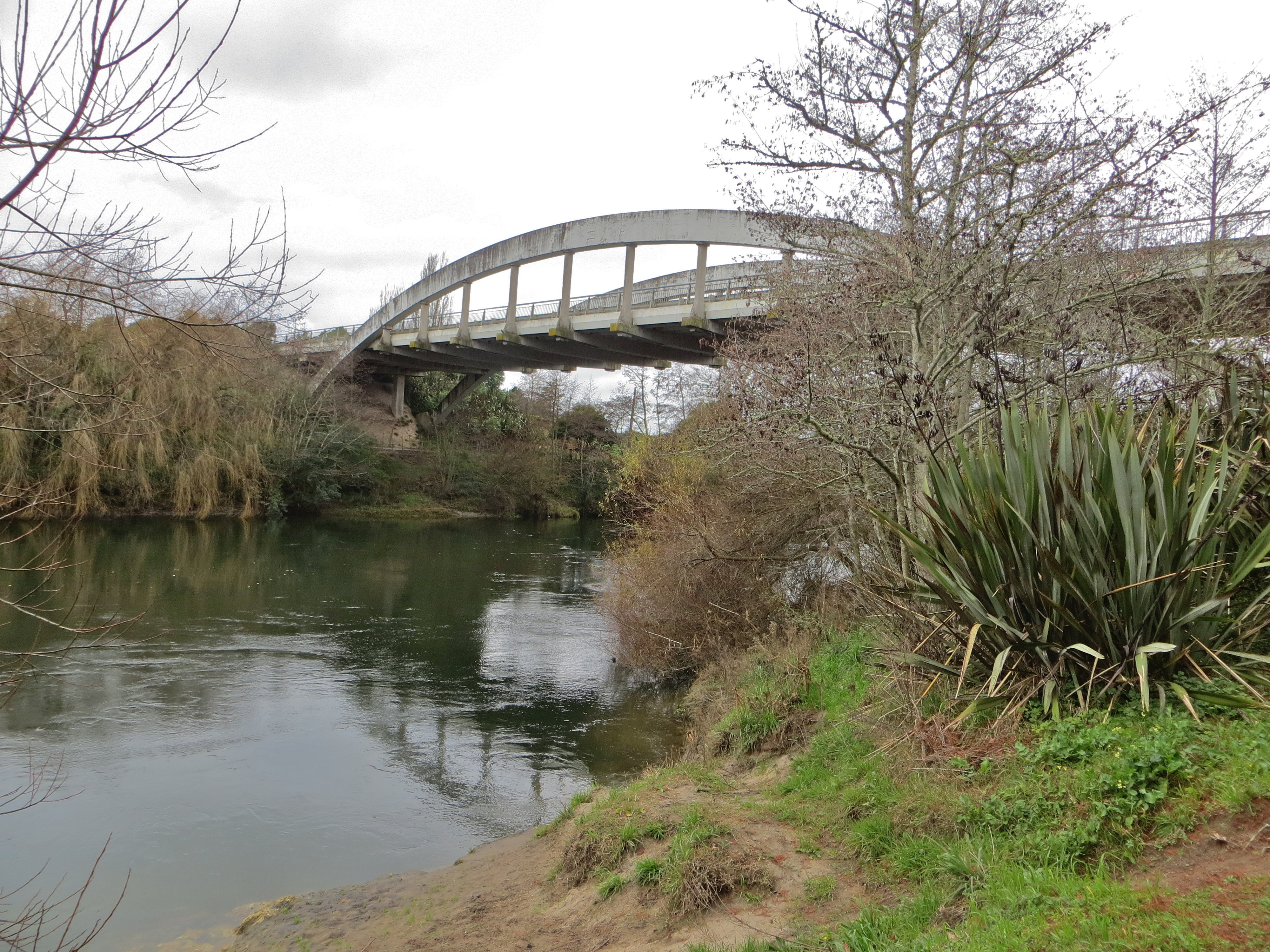 from north